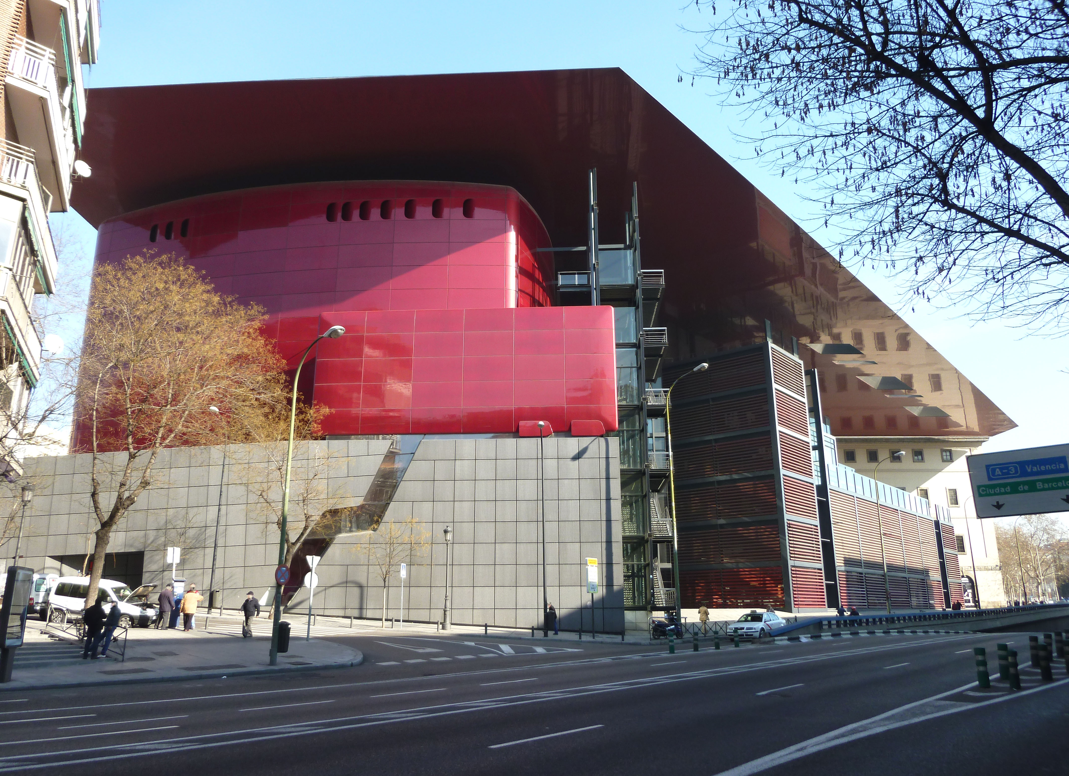 View of the extension of Queen Sofia Museum (MNCARS) in Madrid (Spain) from the south-west angle (Ronda de Atocha, street).